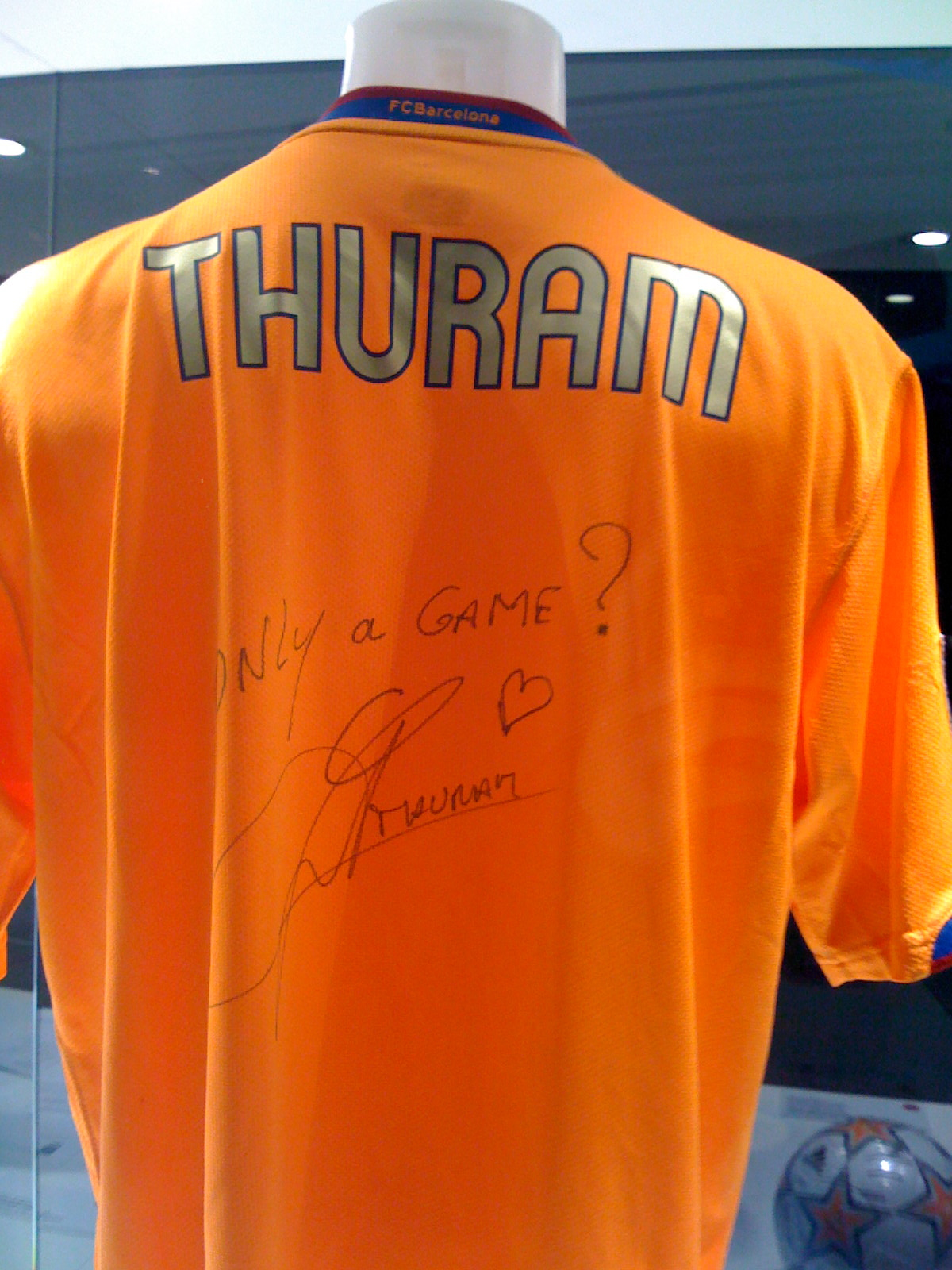 Lilian Thuram shirt displayed at the "Only a Game" exhibition at the World Museum, Liverpool. [1]